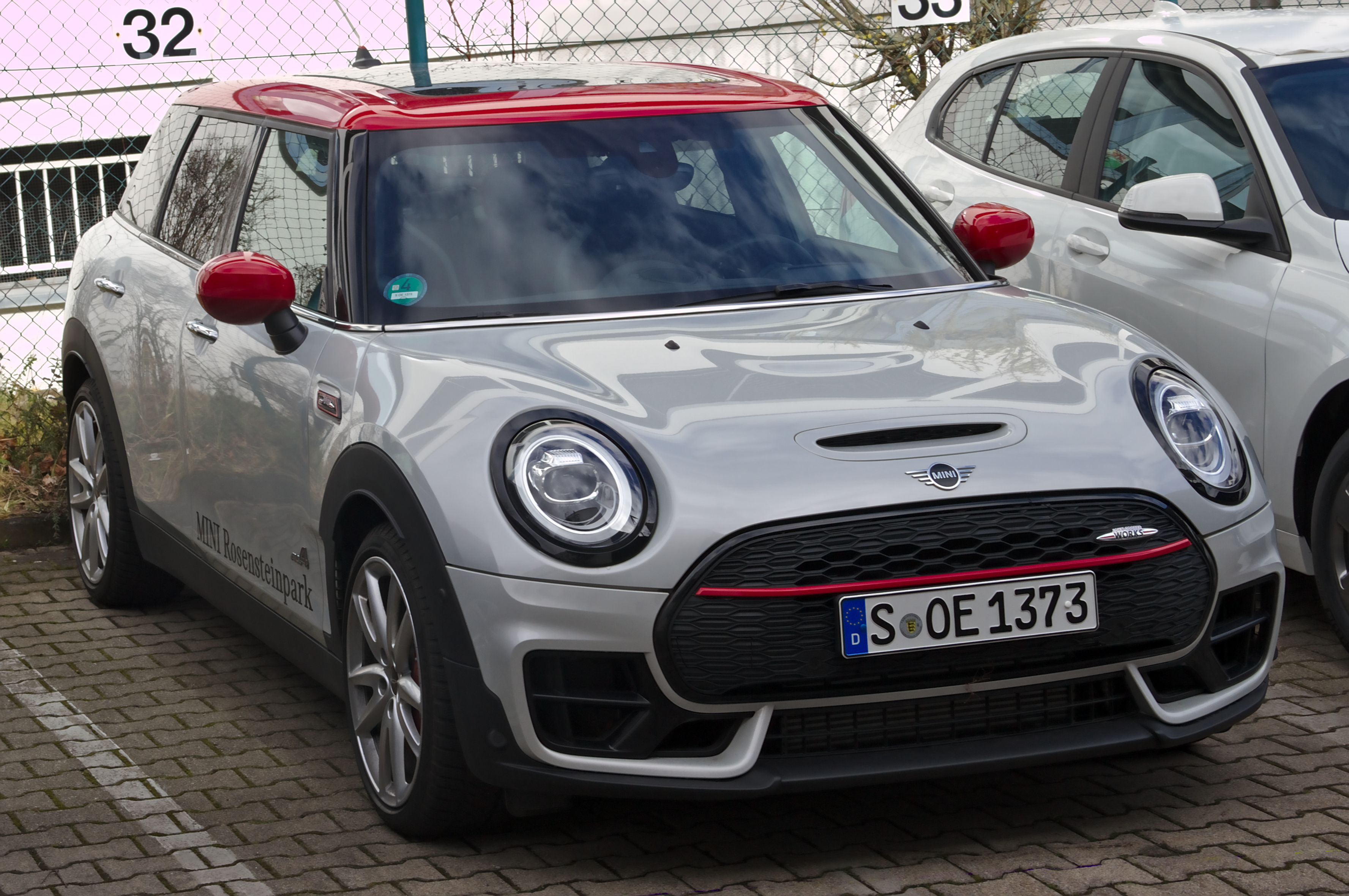 Mini_Clubman_(F54)_John_Cooper_Works in Stuttgart-Vaihingen